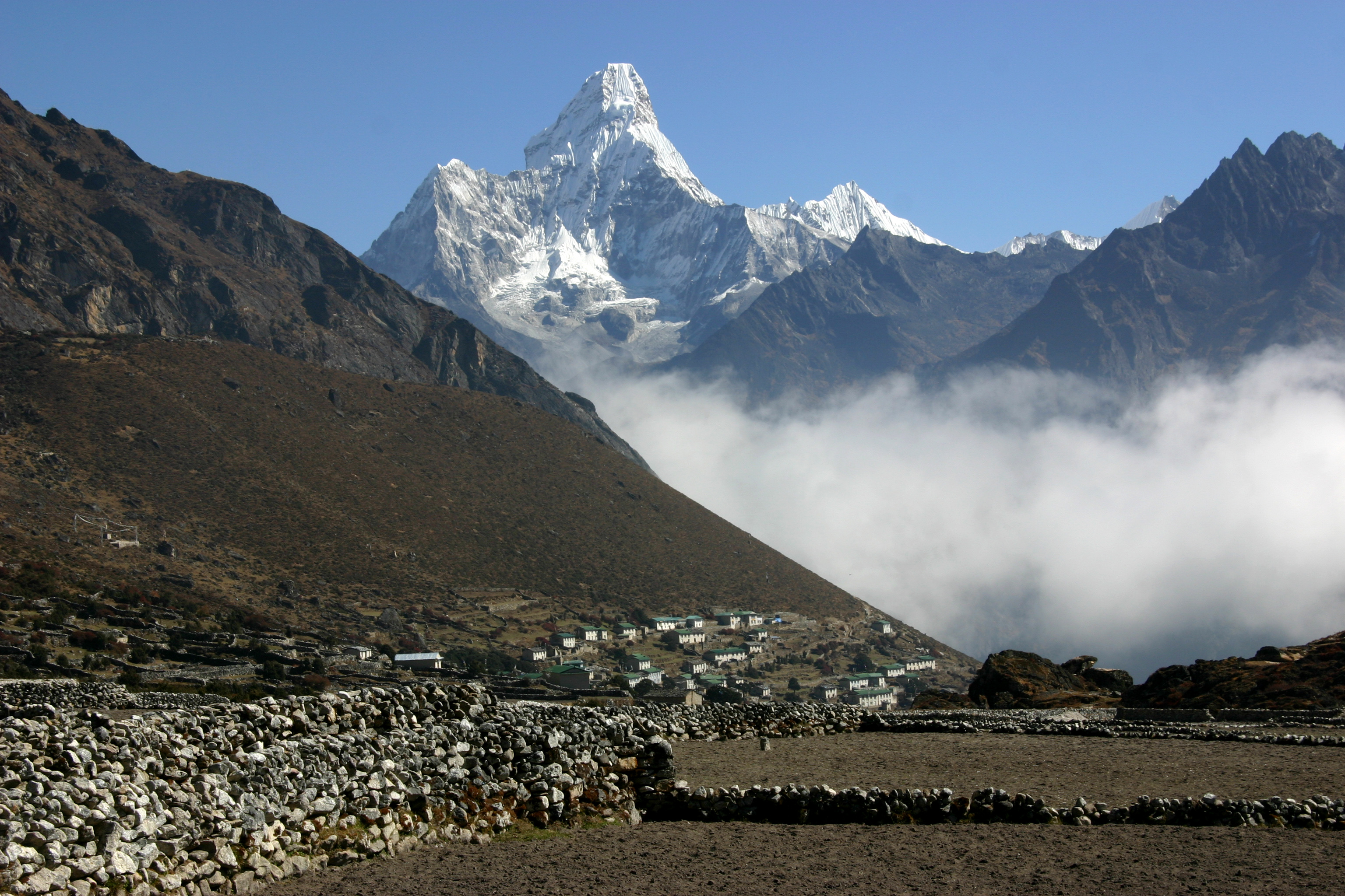 Khumjung village in the VDC Khumjung in Solukhumbu District in Nepal